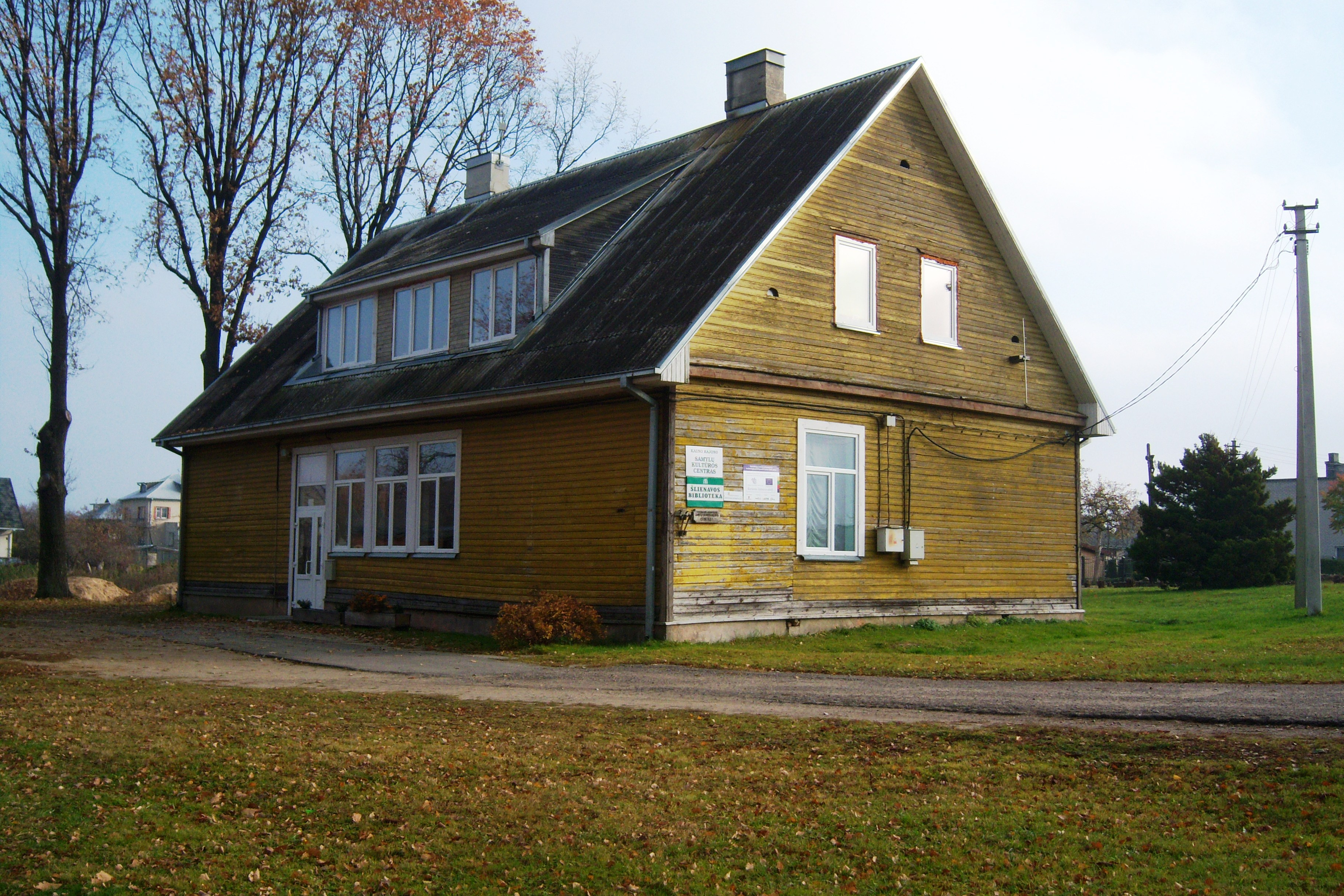 Šlienava, cultural center, Kaunas District. Lithuania